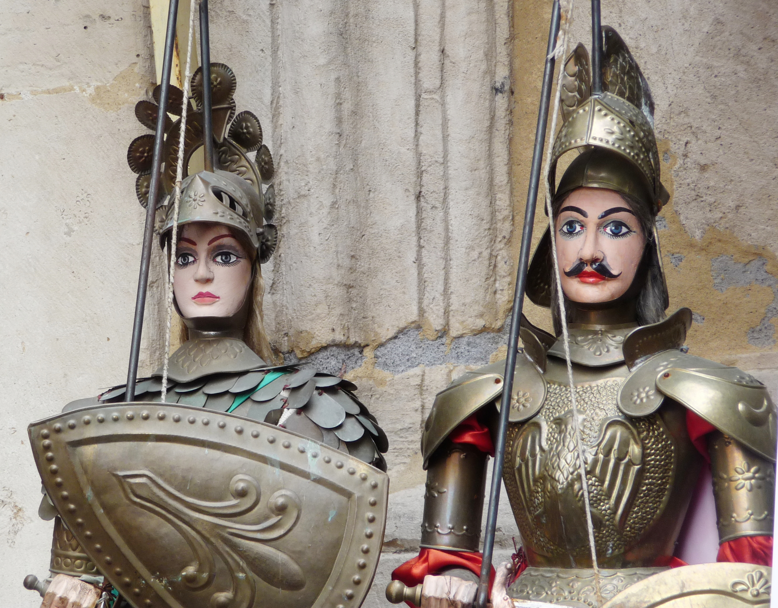 Pupi, traditional Sicilian marionettes - Catania, Italy